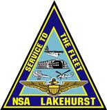 NSA Lakehurst command logo